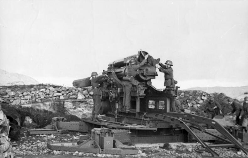 Information added by Wikimedia users.